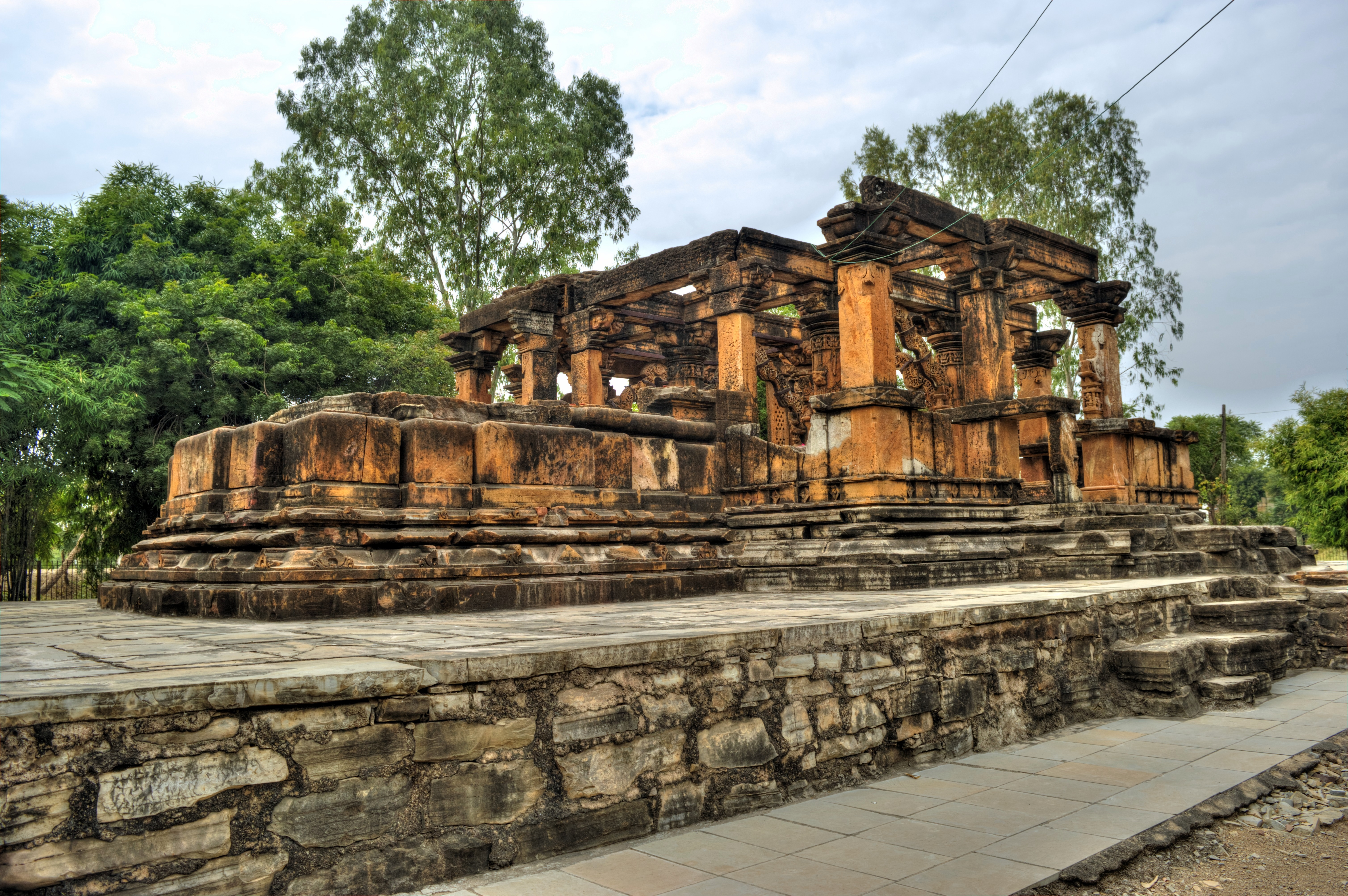 Nava Toran temple at village Khor,Neemuch near Vikram Cement campus is an important remnant of an eleventh-century (11th) temple.There is a statue of Varaha at the centre of the temple.